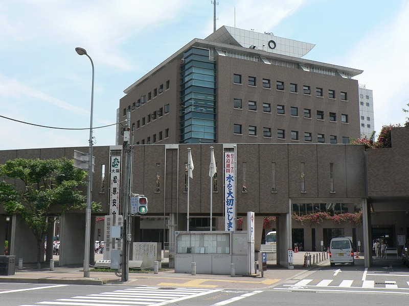 Matsubara city office,Osaka,Japan （松原市役所）